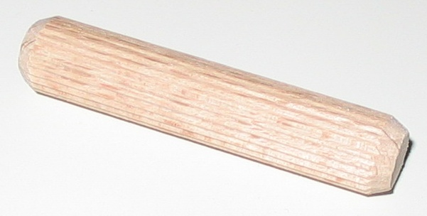 Fluted wood dowel pin